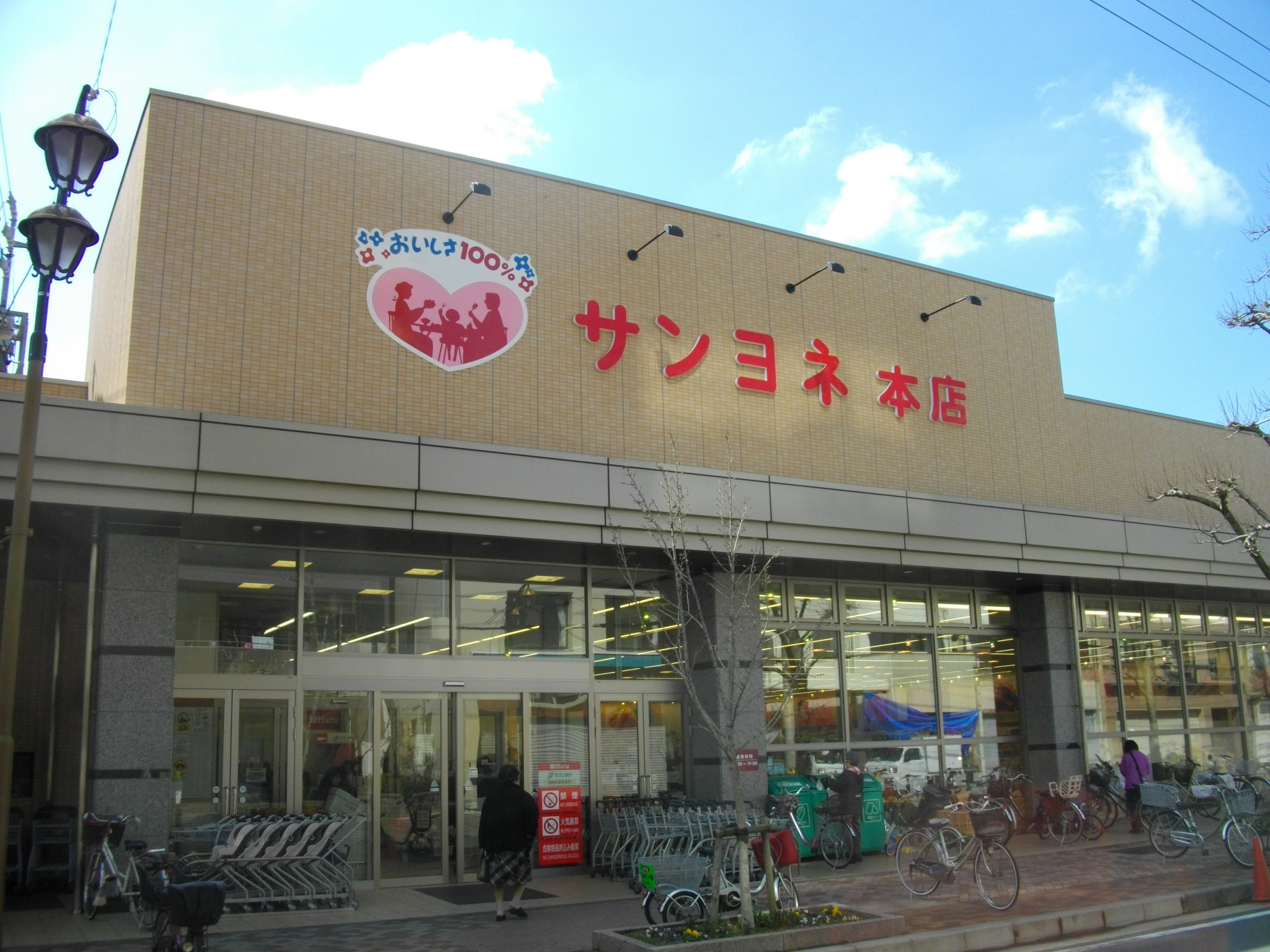 San'yone Head Store